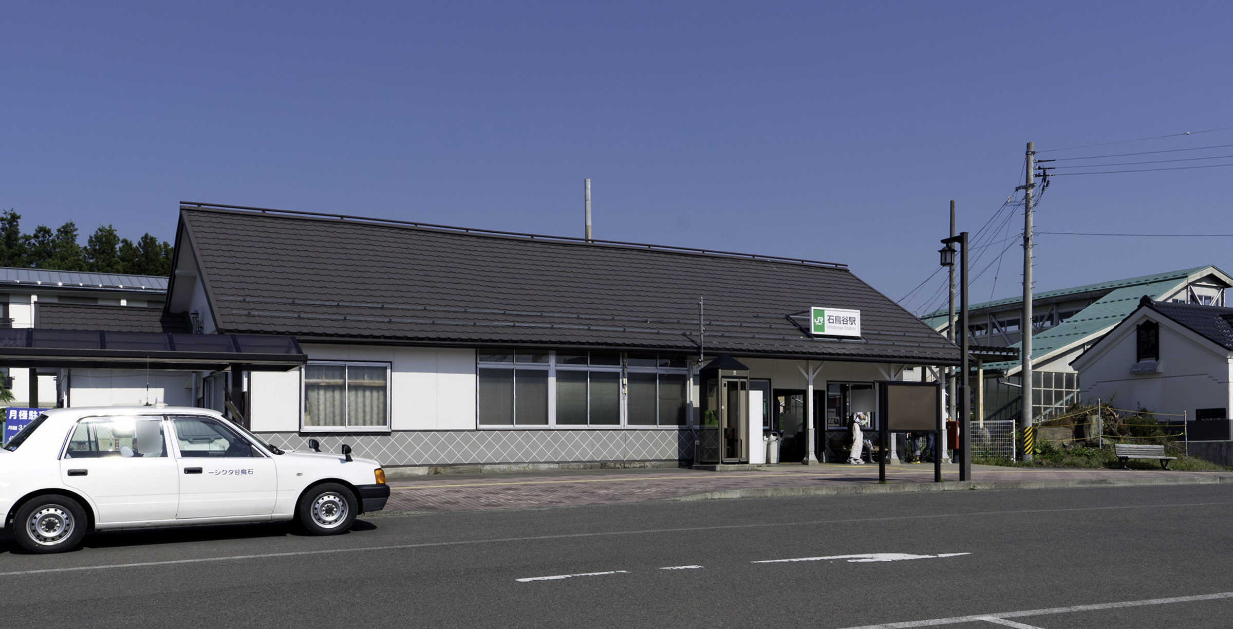 Ishidoriya Station on the Tohoku Main Line in Iwate Prefecture, Japan